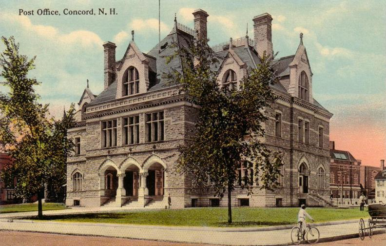 Old Post Office, Concord, New Hampshire. Designed by James Riss Hill, it was built in 1889.